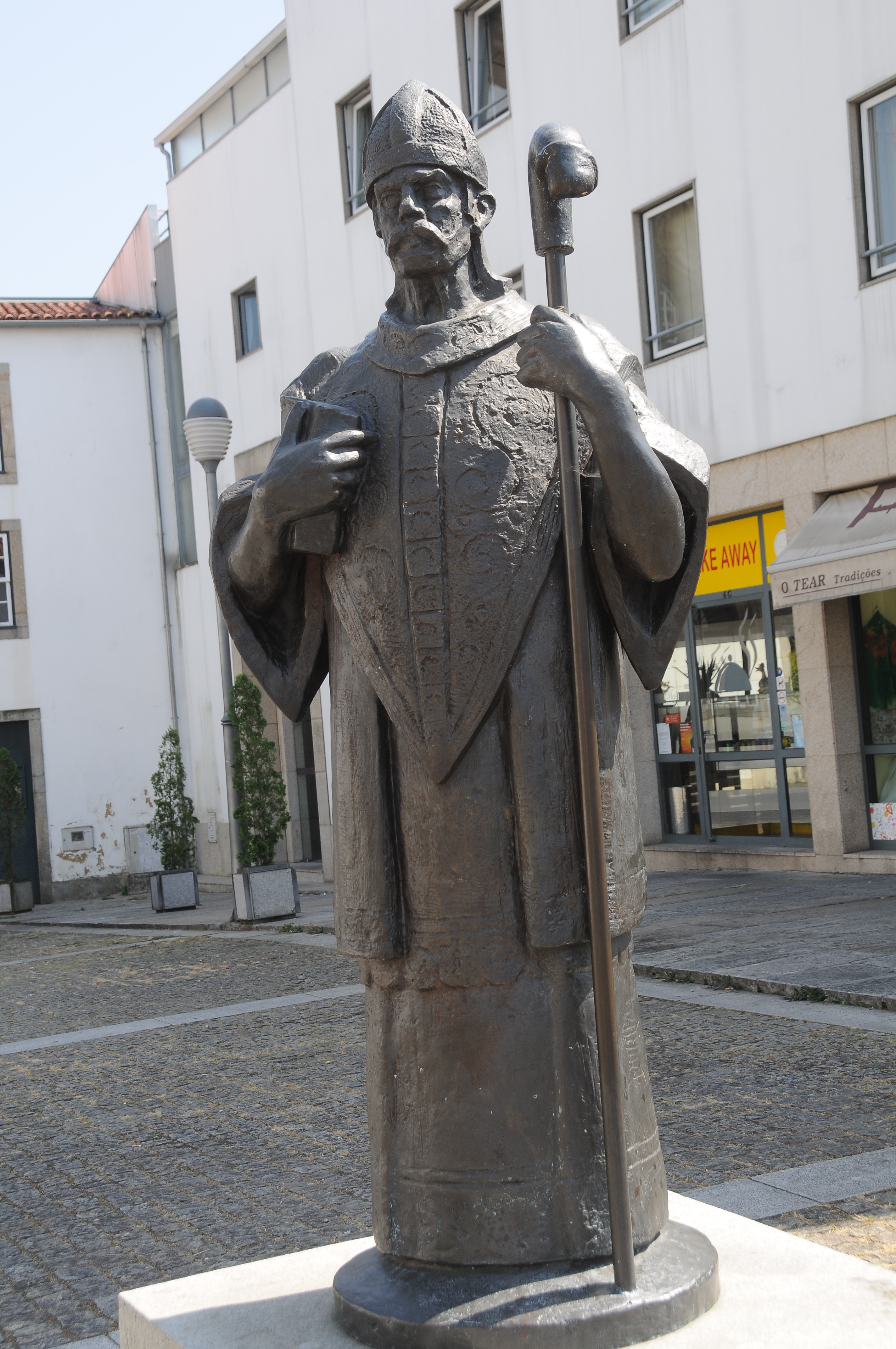 Statue of João Peculiar, Braga, Portugal.